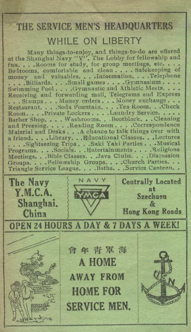 The Shanghai Navy YMCA flyer